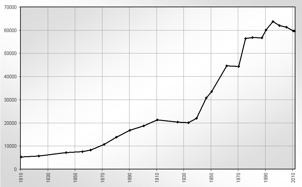 Population development of Schwäbisch Gmünd (1810-2011)